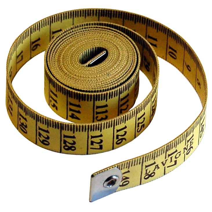 Tape measure